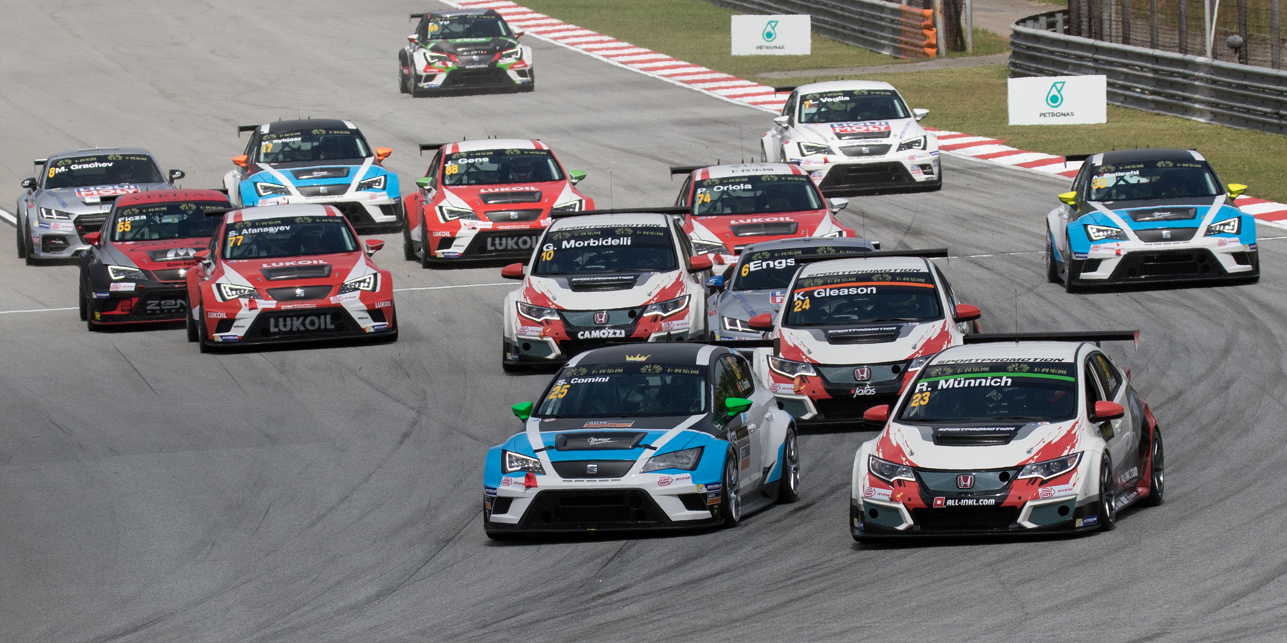 TCR International Series 2015 Rd.1 Malaysia: Race 1 opening lap (re-start)